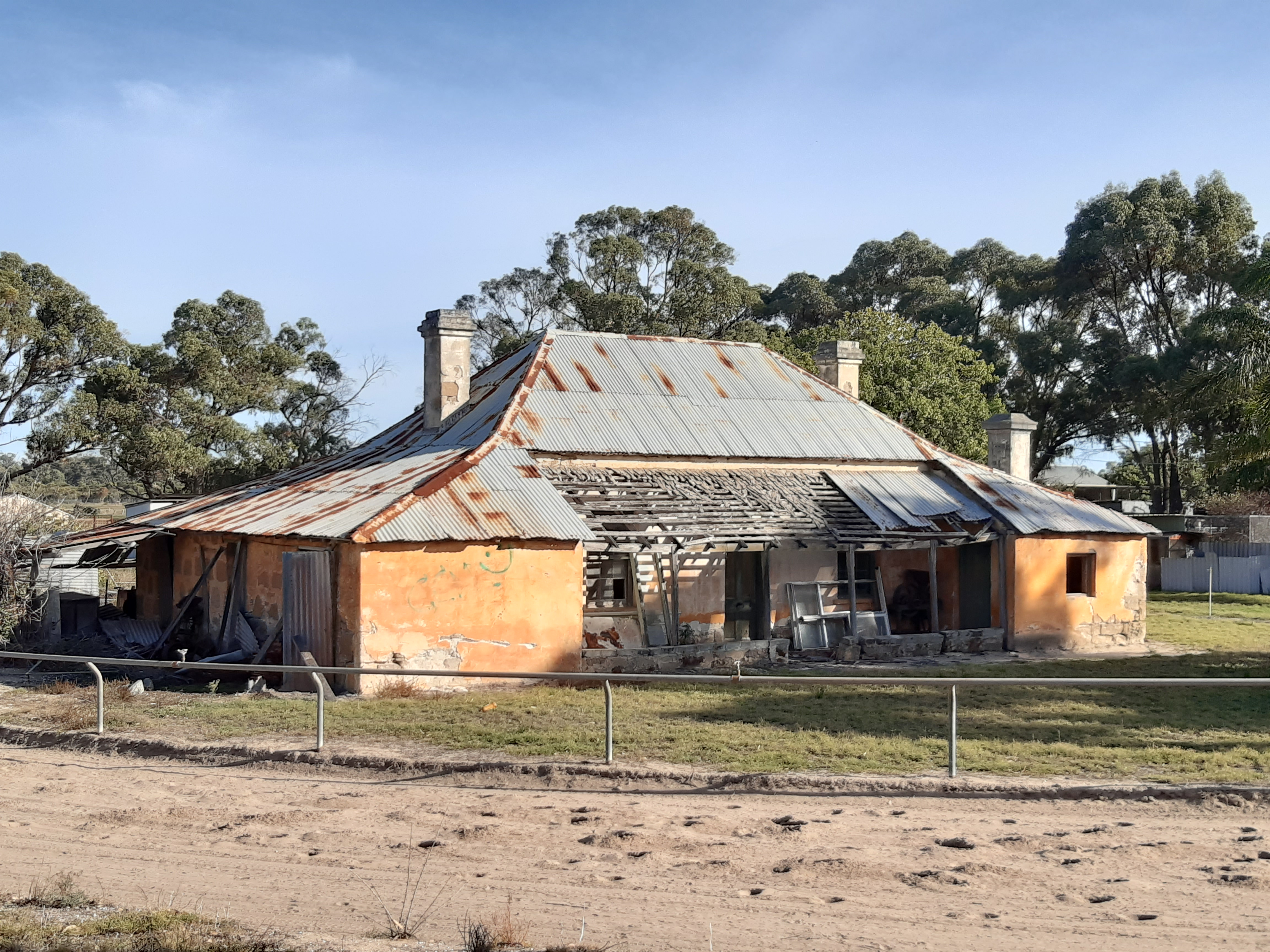 The heritage listed (Inherit #4015) Day Cottage, also referred to as Ellendale, East Rockingham, Western Australia.